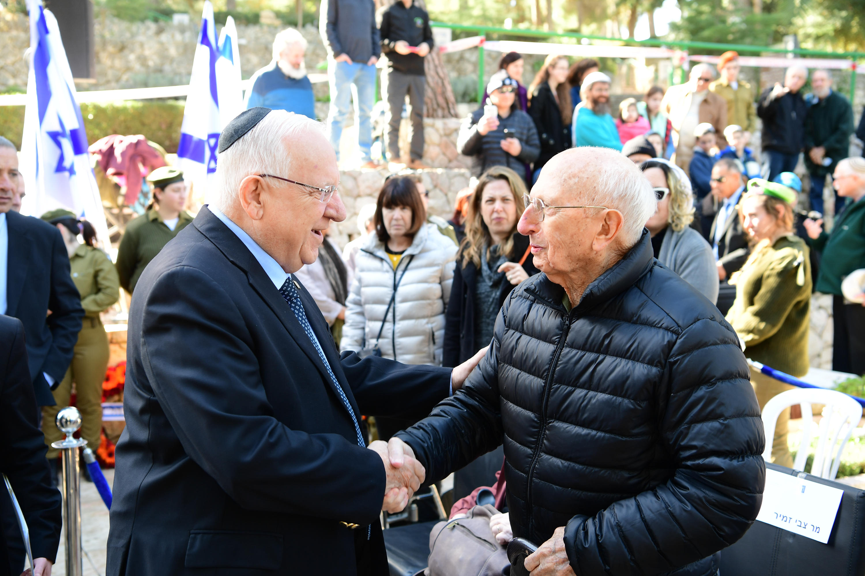 President of Israel, Reuven Rivlin, delivered a speech at the memorial ceremony marking the 70th anniversary of the Convoy of 35 on Sunday, January 21, 2018. Photo credit: Amos Ben Gershom / GPO. Depicted person: Reuven Rivlin – President of Israel Depicted place: Mount Herzl Military Cemetery , Jerusalem